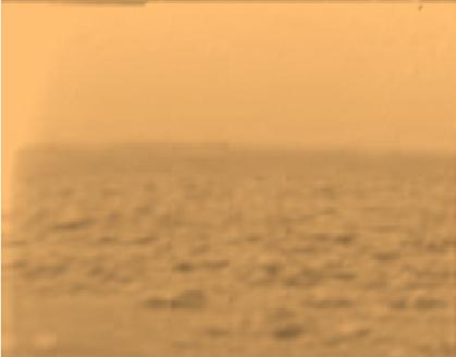 Image of Titan's surface taken by the Huygens probe on 14 January 2005: Surface and sky of Titan